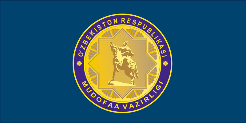 Flag of the Ministry of defence of the Republic of Uzbekistan Oʻzbekcha/ўзбекча: O‘zbekiston Respublikasi Mudofaa vazirligi bayrog‘i